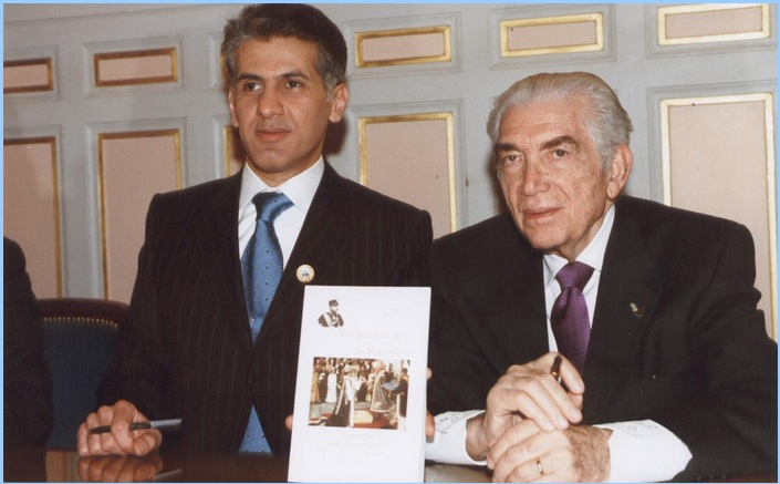 Persian prince Gholam-Reza Pahlavi (R) and Iman Ansari, editor of the book "Mon père, mon frère, les Shahs d'Iran". Book Launch Ceremony in Nice, France, 2007.